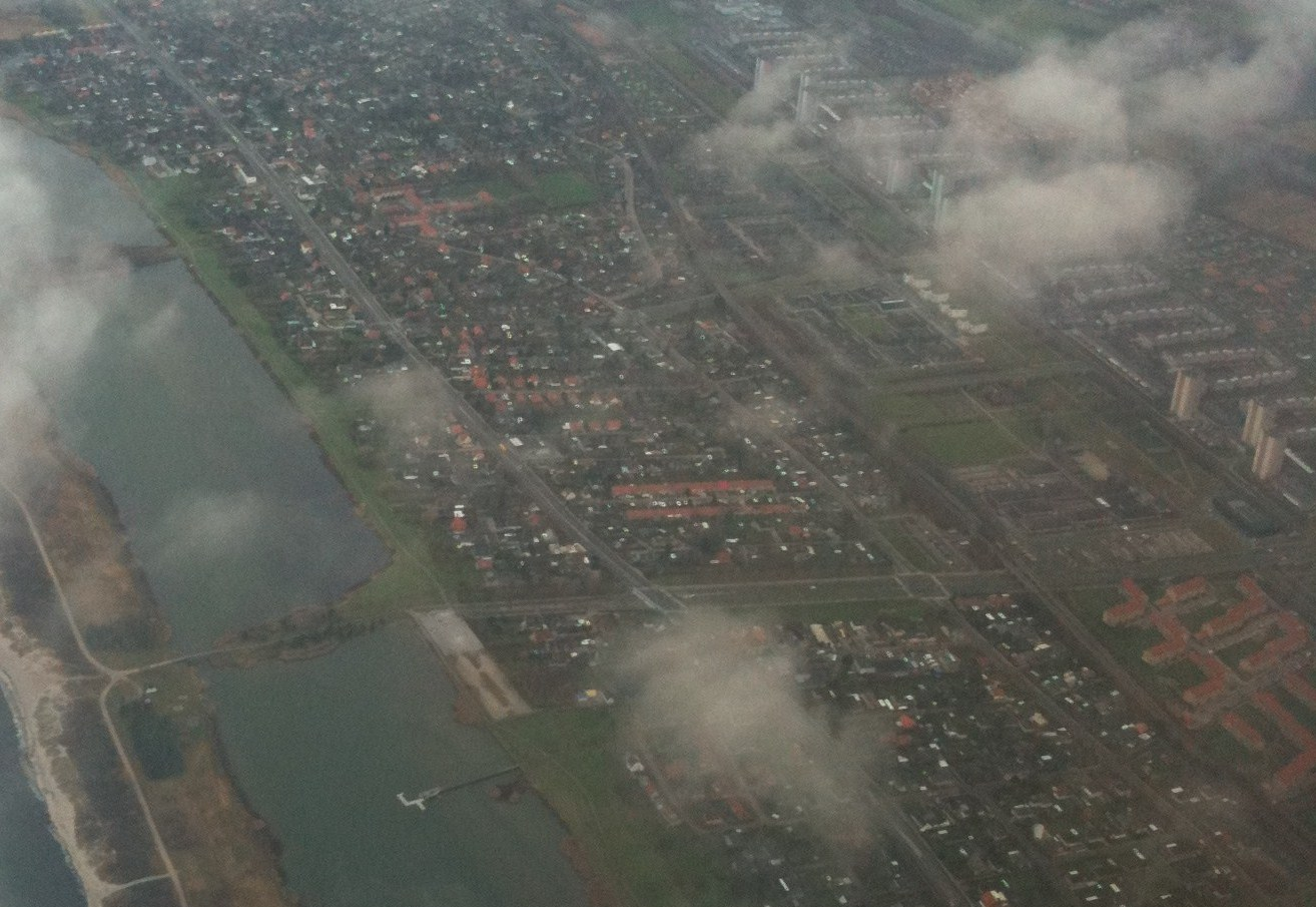 Bröndby Strand, a part of Bröndby Municipality, west of Copenhagen. To the left is Köge Bay.